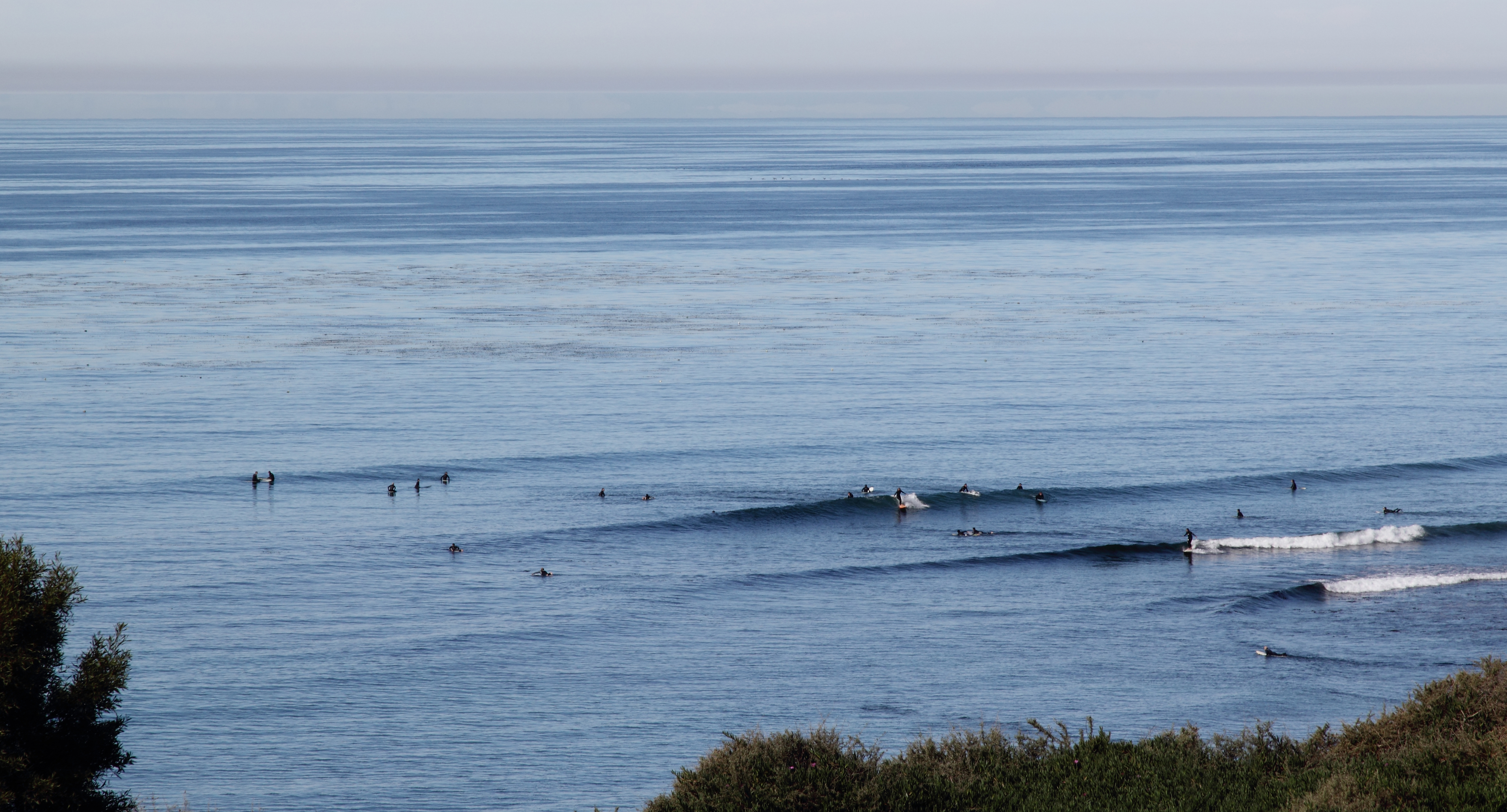 Swamis, a well-known surfing location in Encinitas, California.